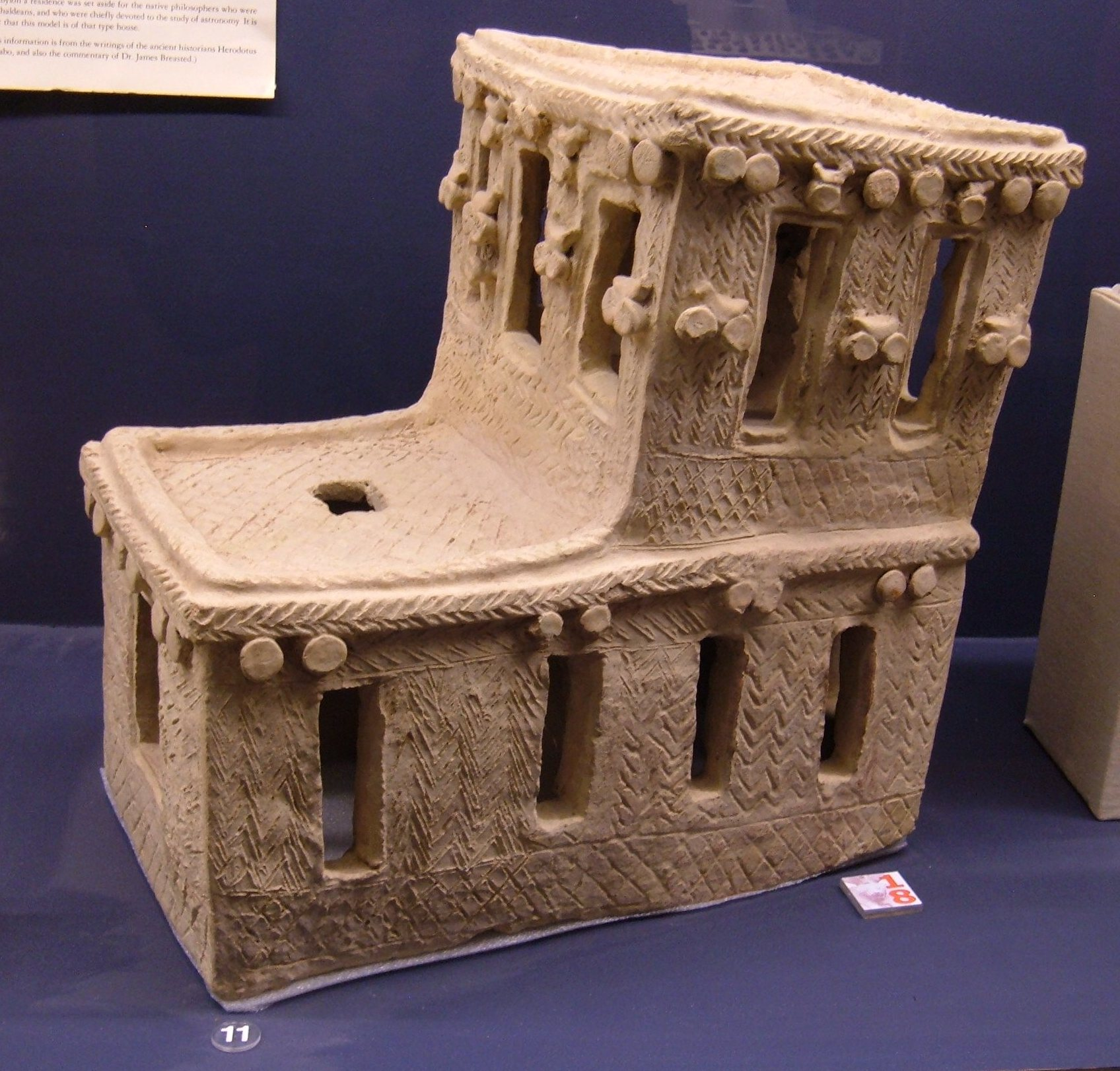 Ceramic spirit house (ca. 2600 BCE) on display at the Rosicrucian Egyptian Museum in San Jose, California. RC 2084